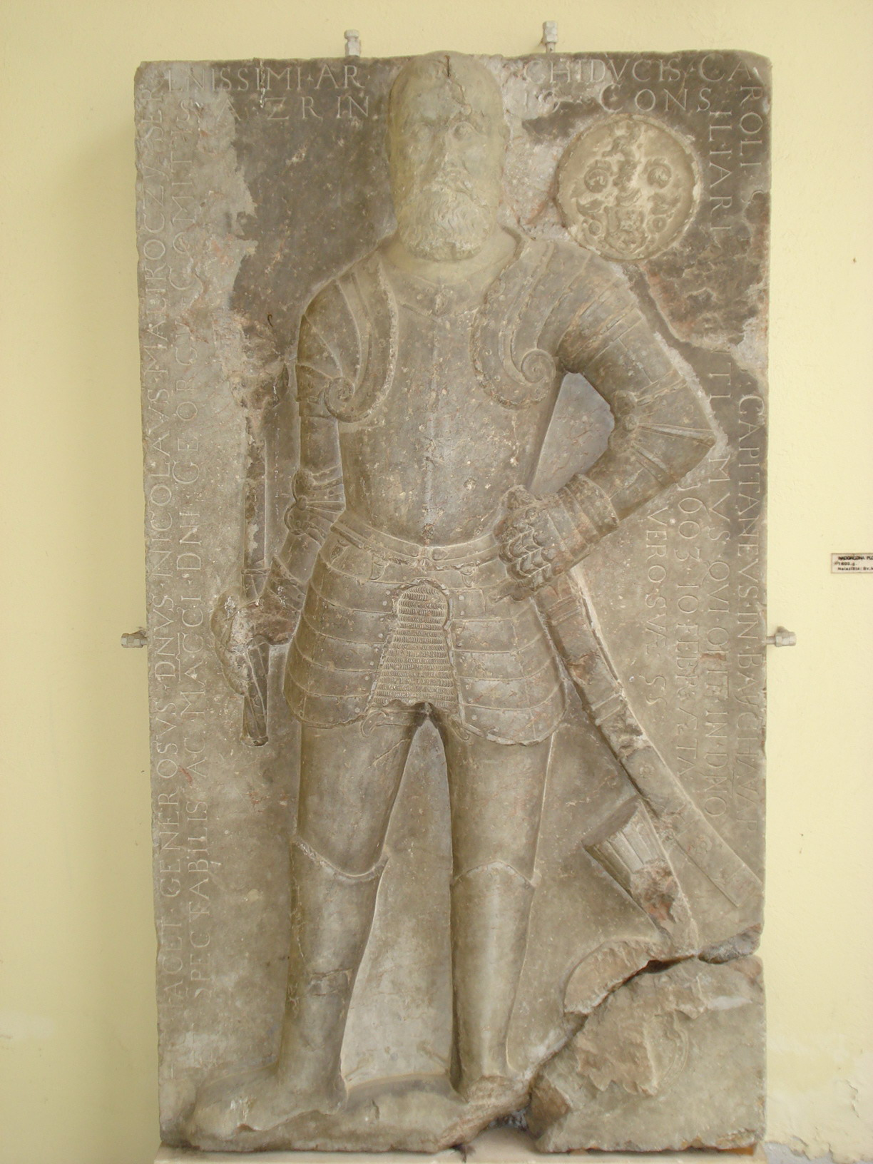 Nicholas I Mlakovečki (Malakóczi) gravestone from 1603 in Čakovec (Croatia)